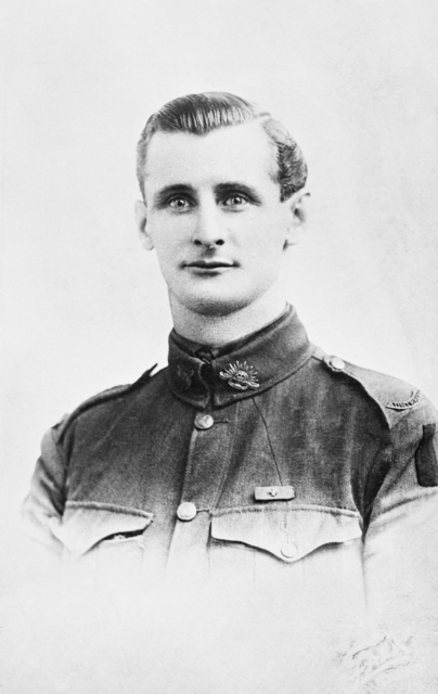 Studio portrait of Private (Pte) William Matthew Currey VC, 53rd Battalion AIF.